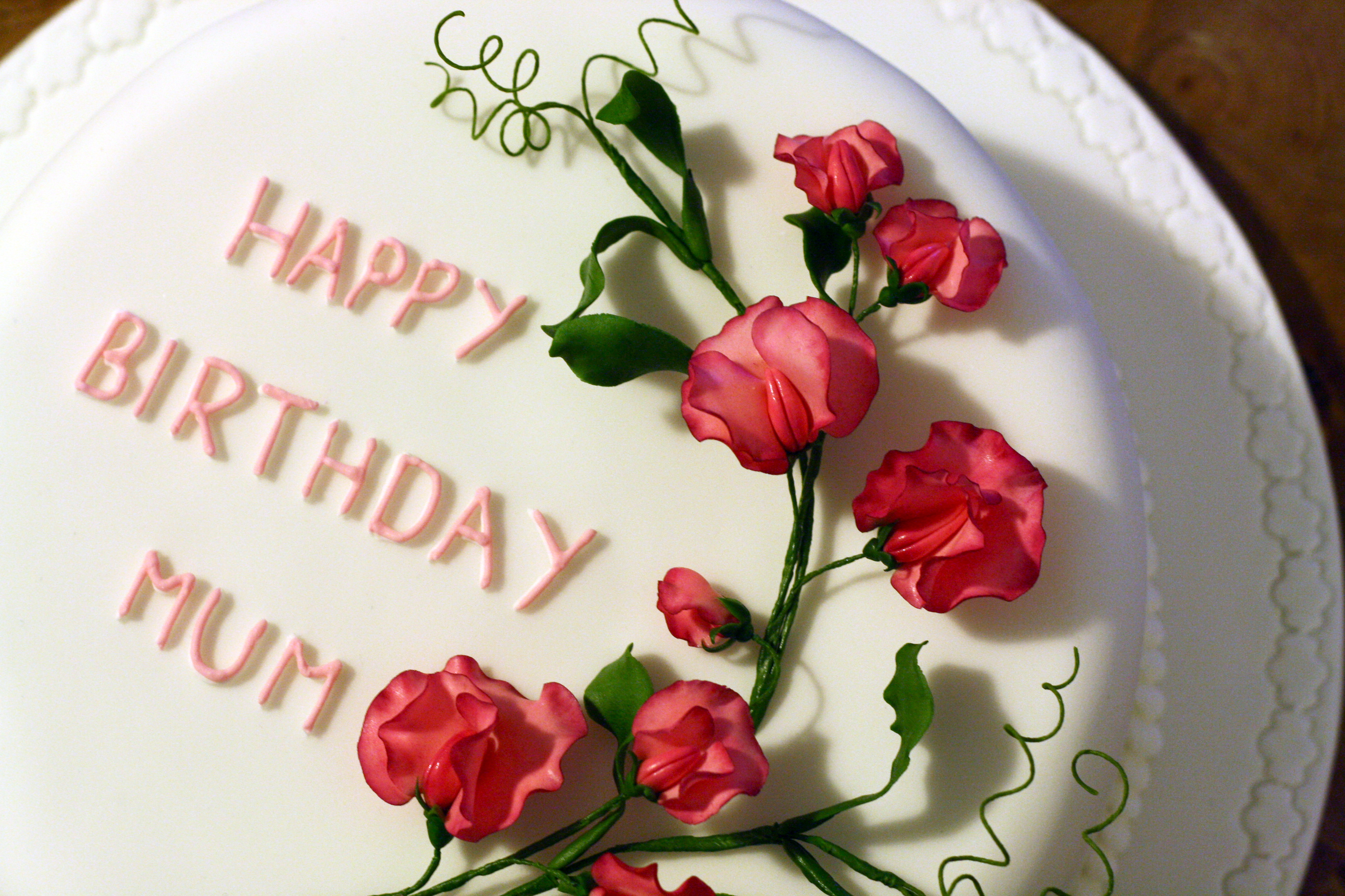 sugarcraft cake with the text "happy birthday mum"